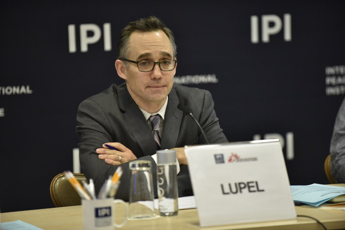 Adam Lupel, Vice President of the International Peace Institute, sits at a panel at an International Peace Institute Policy Forum in New York. Photo credit: International Peace Institute.